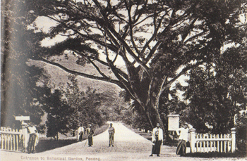 Entrance to the Penang Botanical Gardens